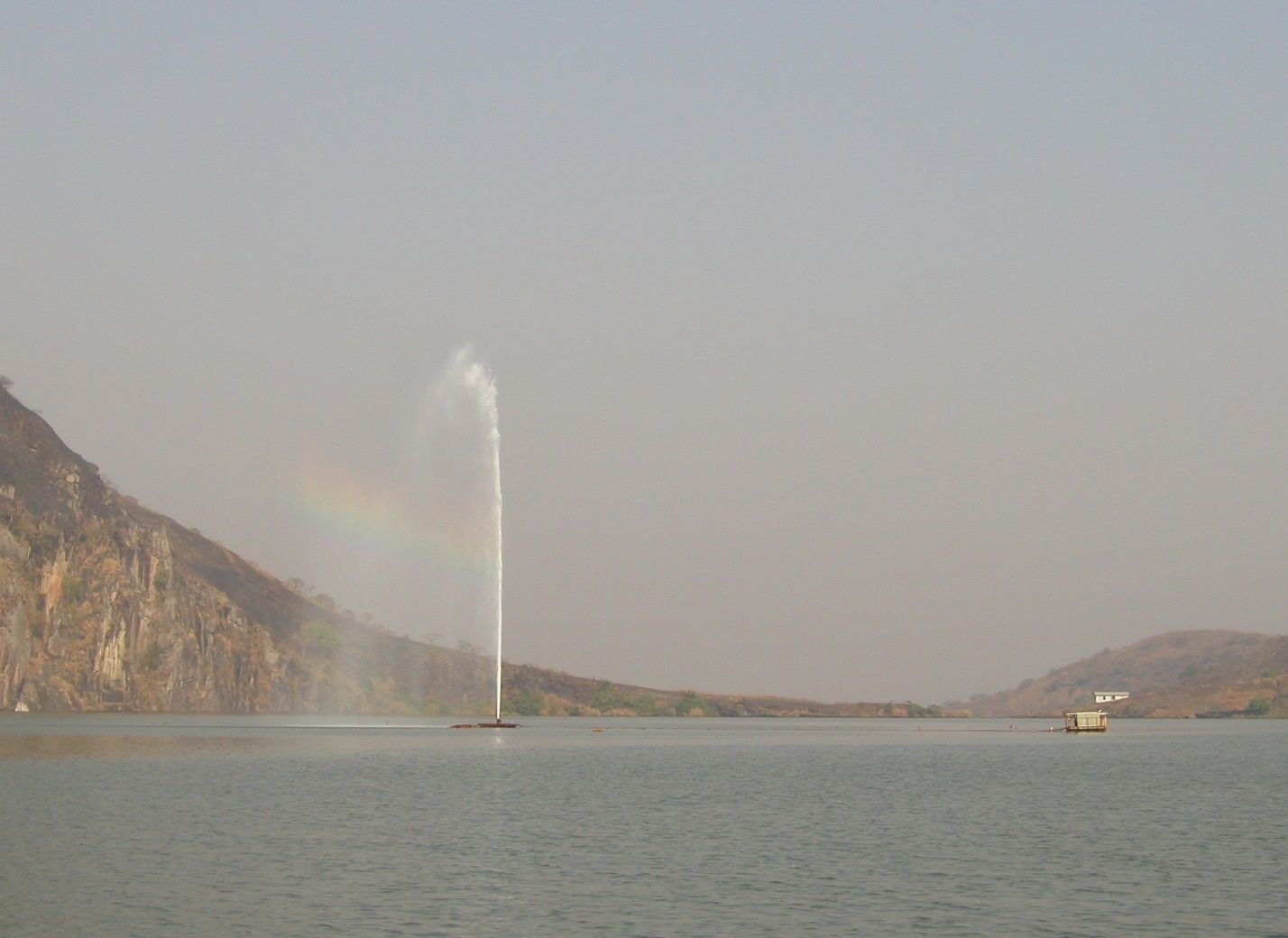 Artificial carbon dioxide vent in Lake Nyos, Cameroon. 2006. In 1986, Lake Nyos, in the volcanic region of Cameroon, released a cloud of CO2 into the atmosphere, killing 1,700 people and 3,500 livestock in nearby towns and villages. Afterwards, engineers installed a pipe system to vent the gas from the lake. This photo shows the Lake Nyos pipe in operation. The 200-meter-long pipe is suspended from the raft and allows gas-rich water from the lake bottom to vent to the surface, where the CO2 dissipates into the atmosphere at a controlled rate. The shed on the control raft is about 6 feet tall and the fountain is about 120 feet tall. There are no pumps involved because the CO2 drives the fountain, just like a shaken bottle of champagne.